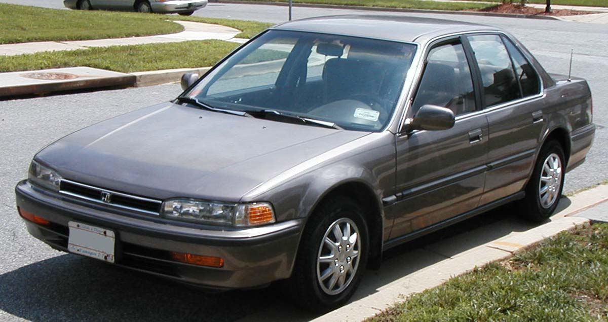 1990-1993 Honda Accord photographed in USA.